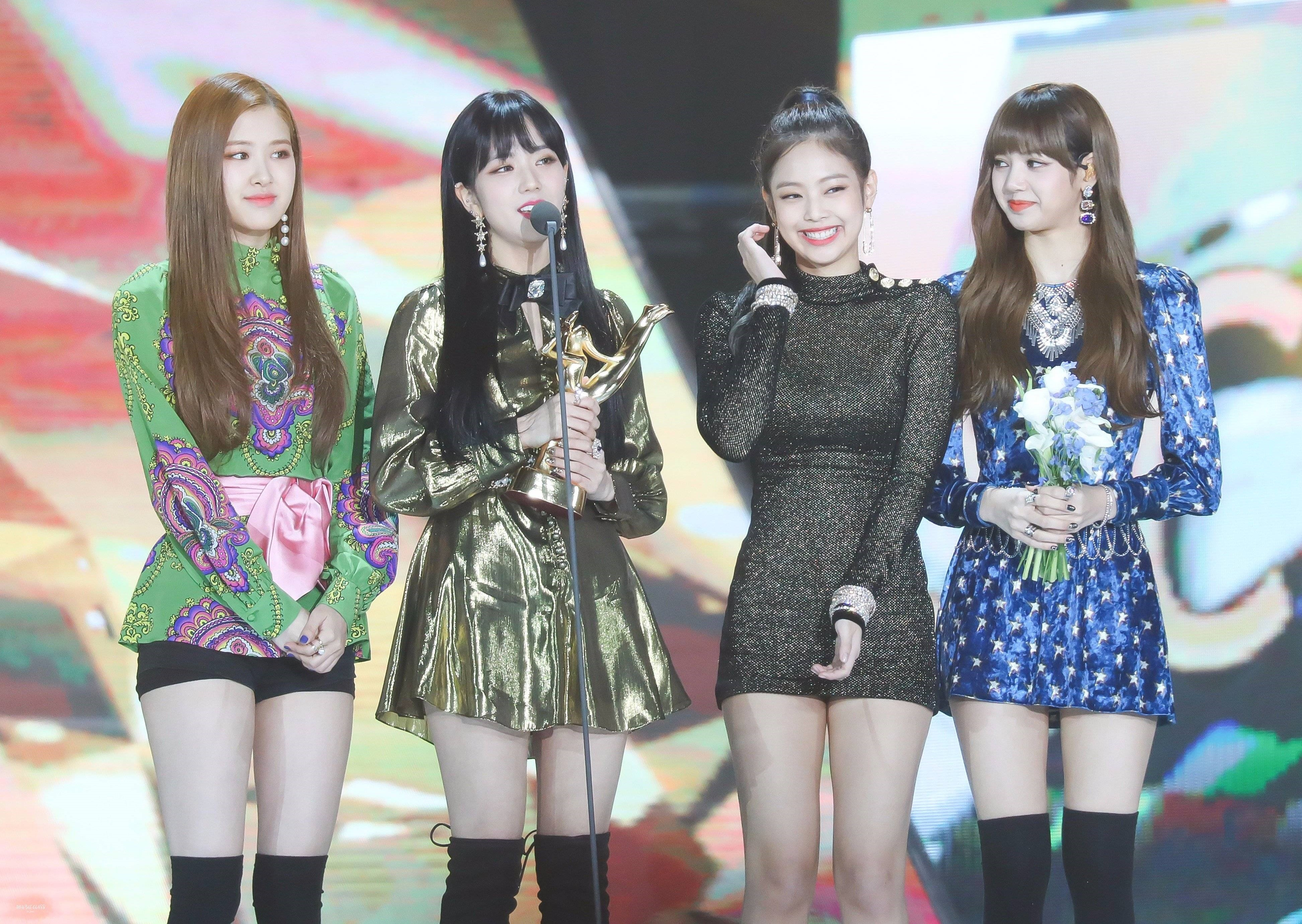 Blackpink band members: Jisoo (1995 -), Jennie (1996 -) Rose (1997 -, of New Zealand origin) and Lisa (1997 -, of Thai origin) that i taken by K-pop Amber, on January 29, 2018.